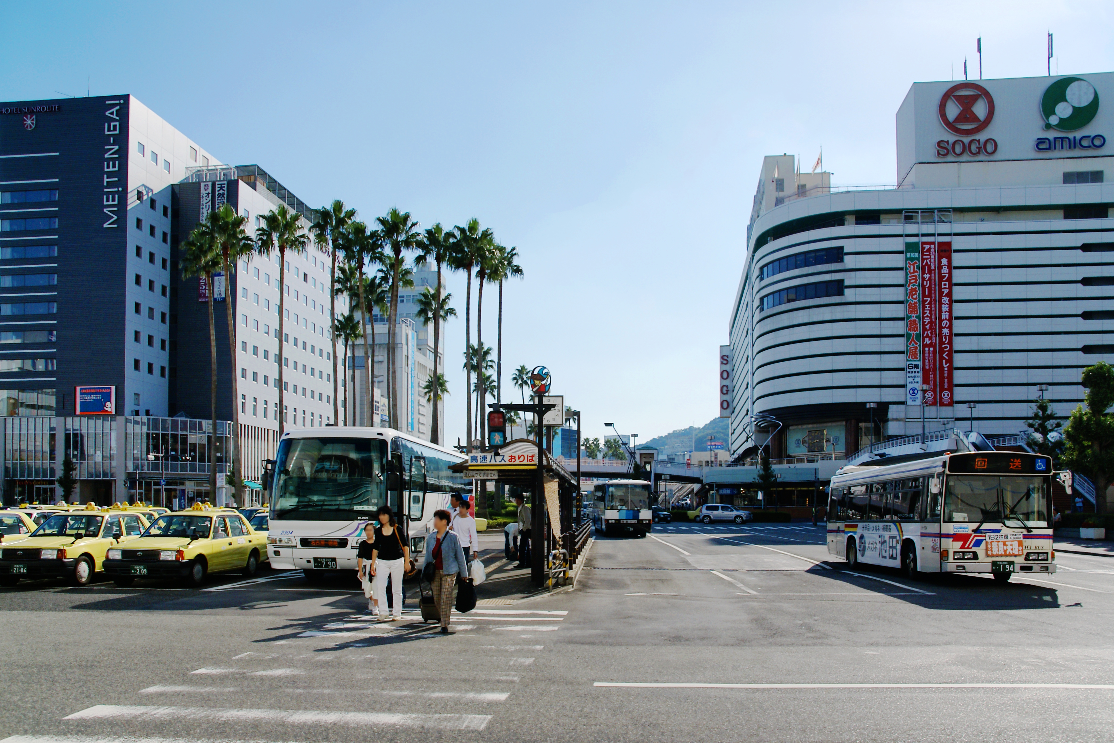 In front of Tokushima Station, Tokushima prefecture, Japan